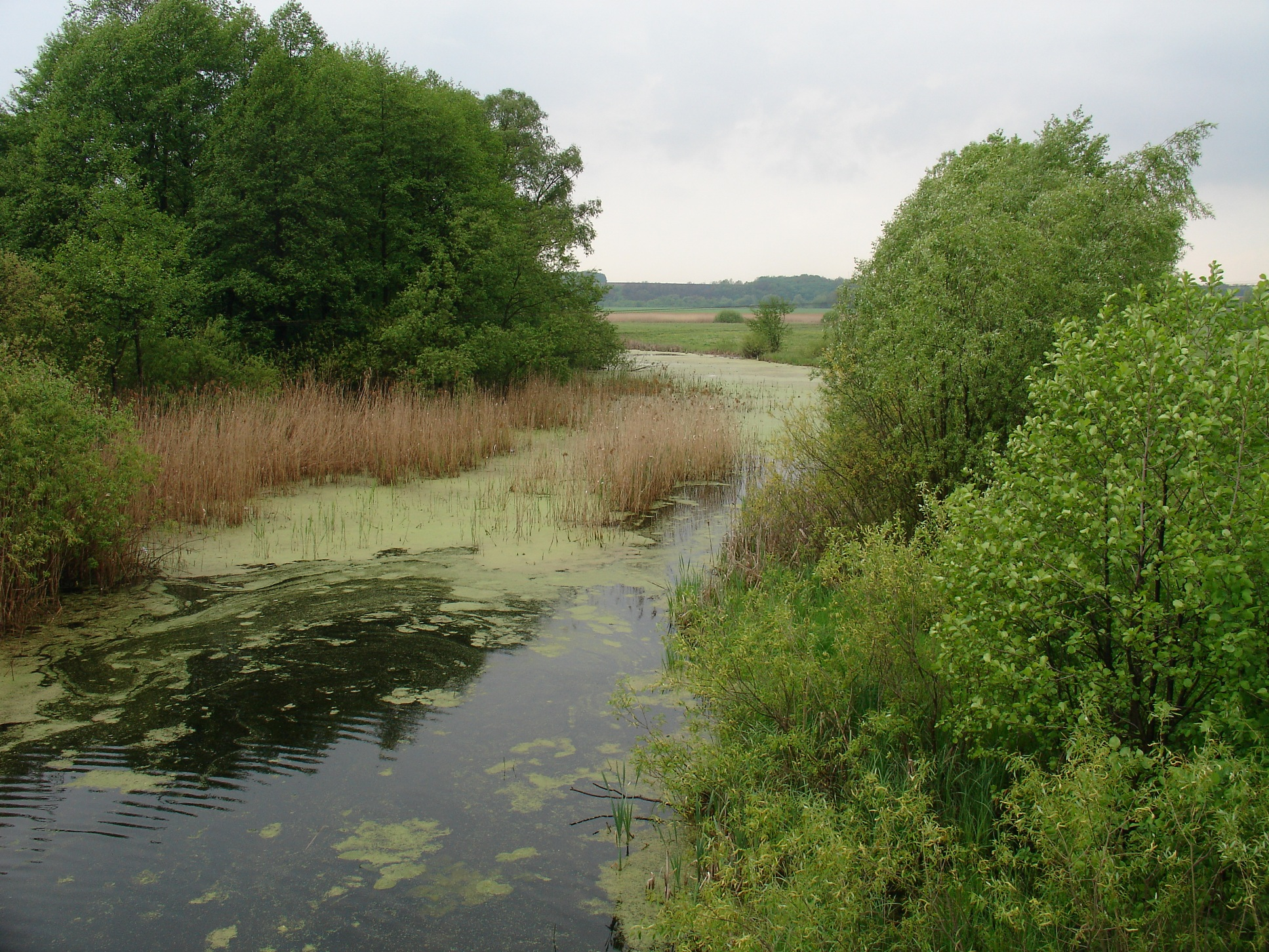 River Velyka Govtva in Nadejda